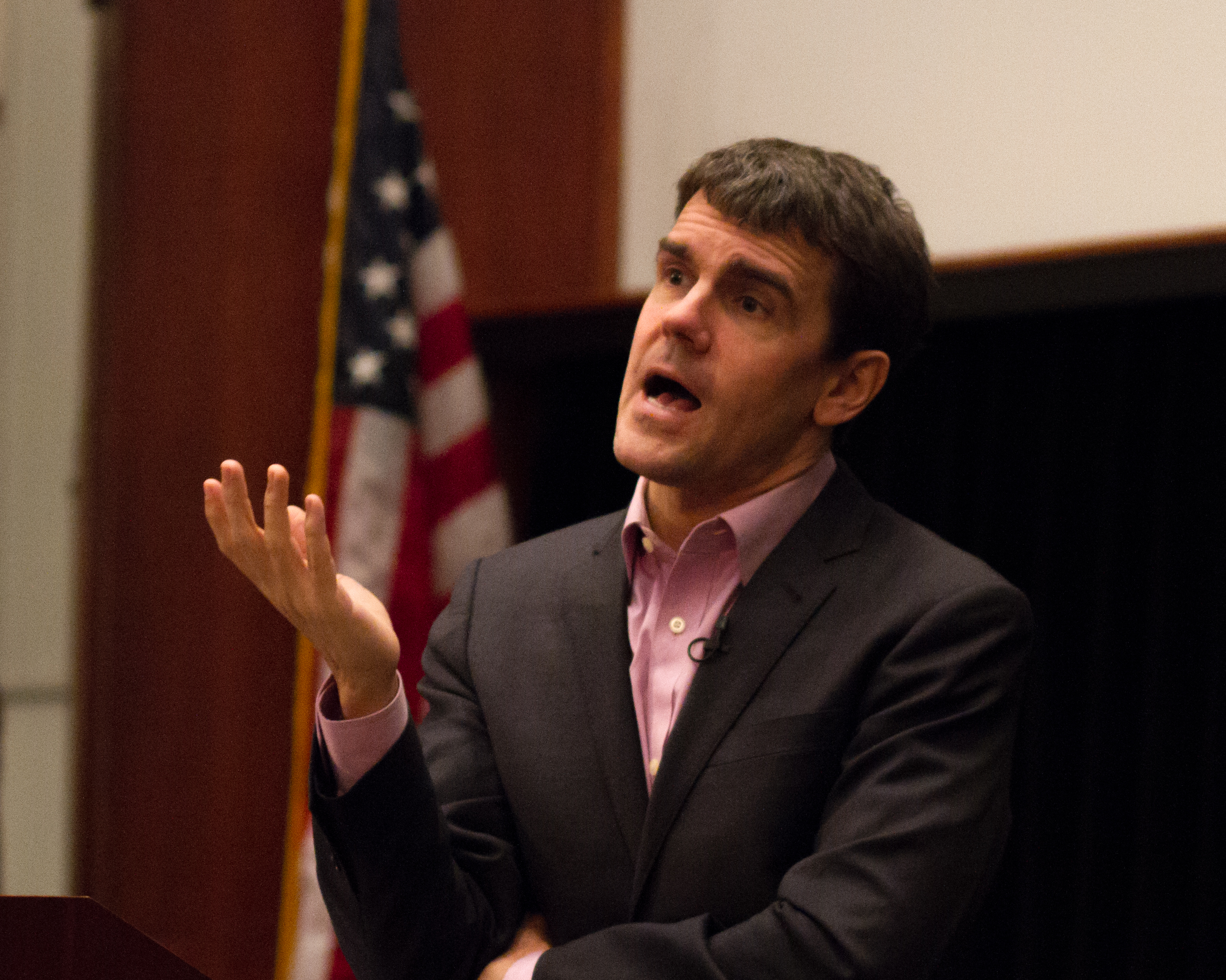 James Surowiecki, author of "The Wisdom of the Crowds," at the MU Life Sciences & Society Symposium – Decoding Science. Cornell Hall, Bush Auditorium.